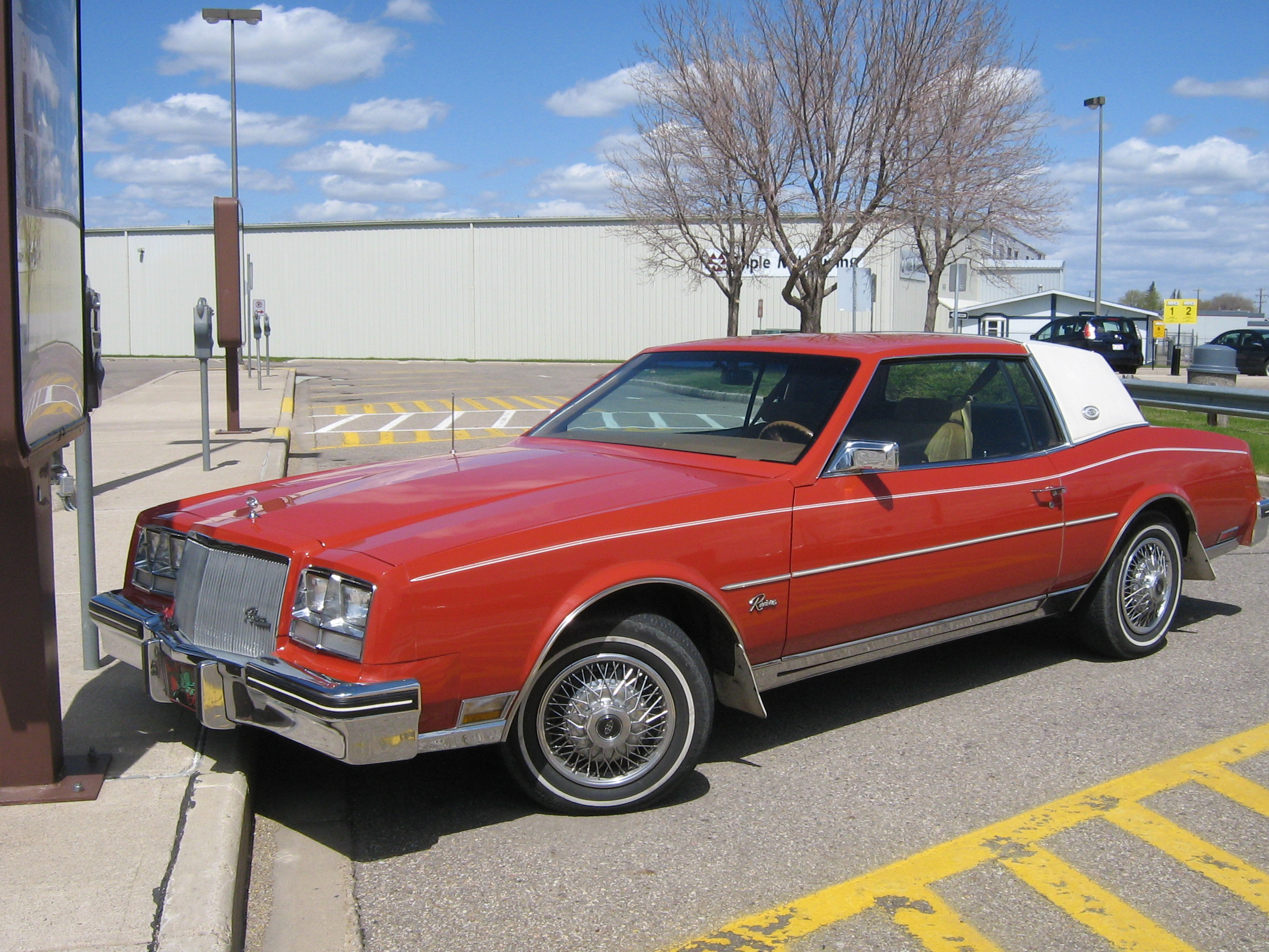 Buick Rivera